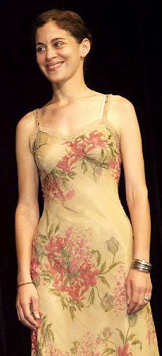 Picture of Laila marrakchi in Cannes film festival